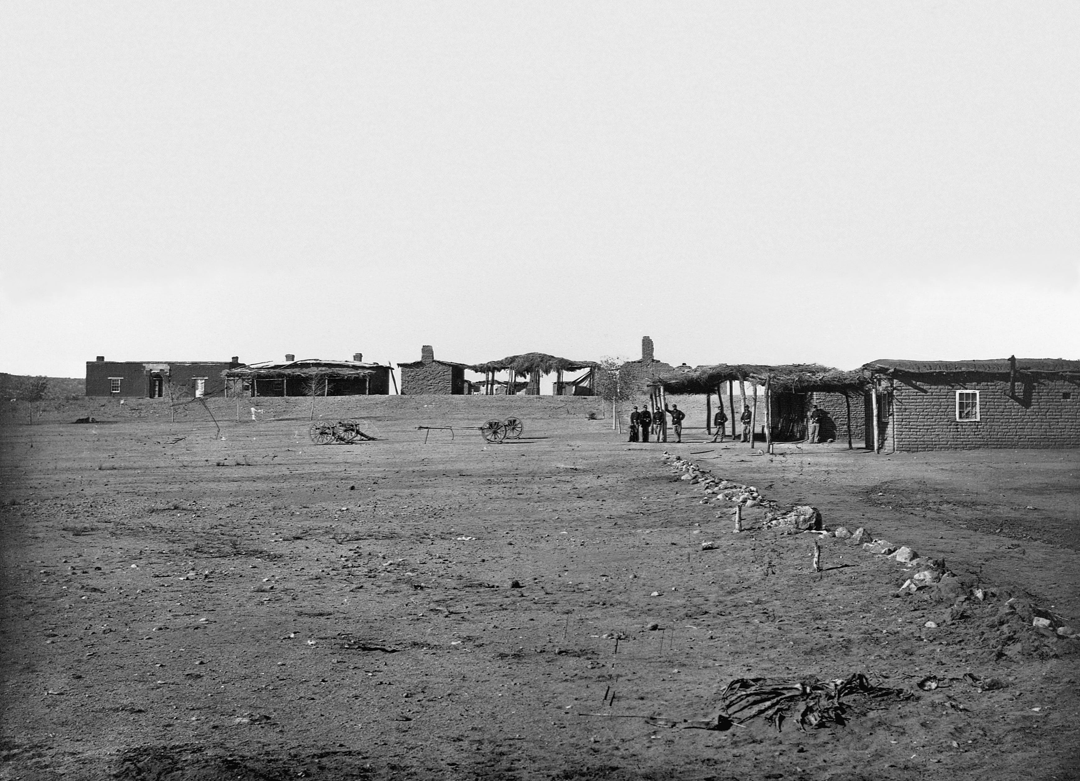 Photograph by John Karl Hillers showing Camp Grant, Arizona in 1870.